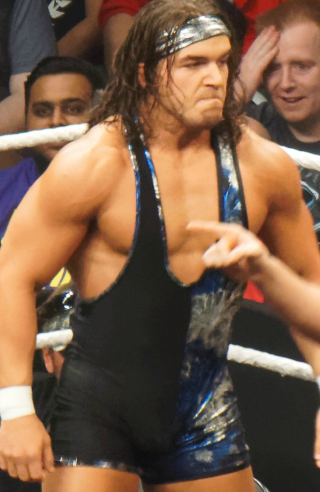 Gable during the NXT Takeover event in April 1, 2016.